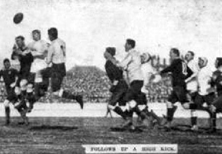 New Zealand rugby first test ever, v. Australia.